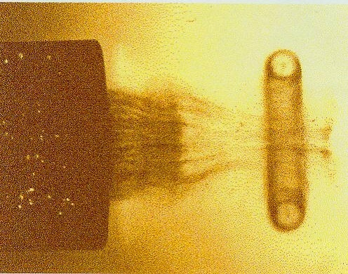 Formation of a Vortex Ring exiting a gun muzzle as captured by Dr. Lyons with spark photography upon firing a blank 40mm grenade.